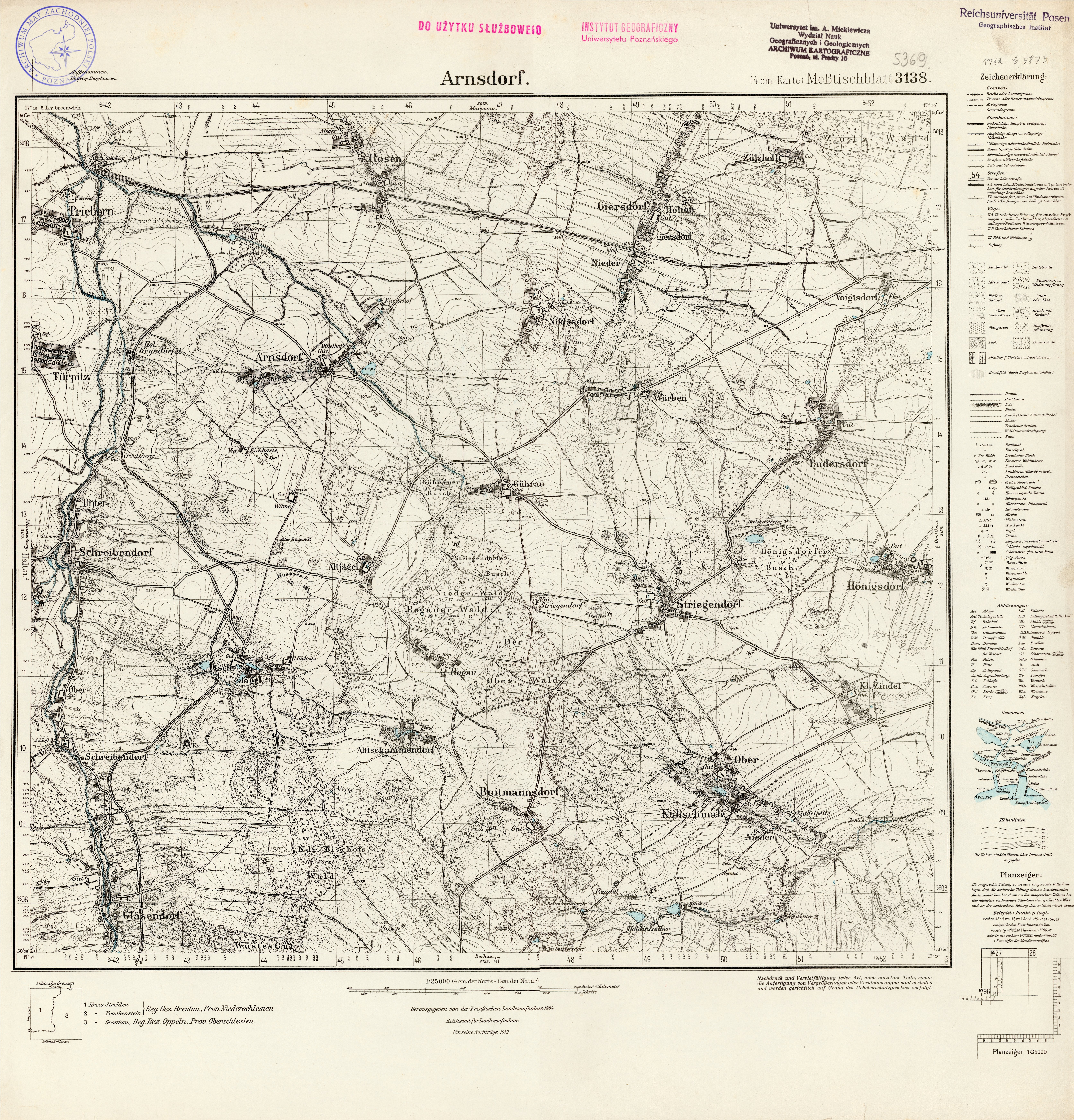 The picture/map has been publiced on internet by Its orgin is from The Prussian office of maps. (Herausgegebert von der Preussicher Landesaufnahme).